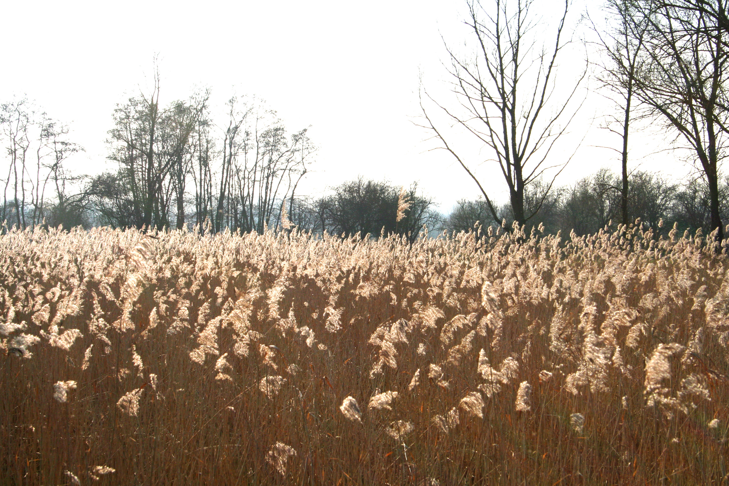 Harchies (Belgium), reed bed located at the western side of the Harchies dam. Walon: Harchîyes (Bèljike), tchamp d’rosês si trovant au coutchant dol dîgue d’Harchîyes.